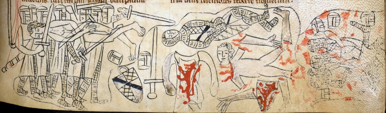 Death and mutilation of Simon de Montfort at the Battle of Evesham. Above Simon is the body of his son Henry.